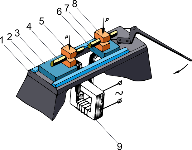 Scheme of the machine for butt resistance welding